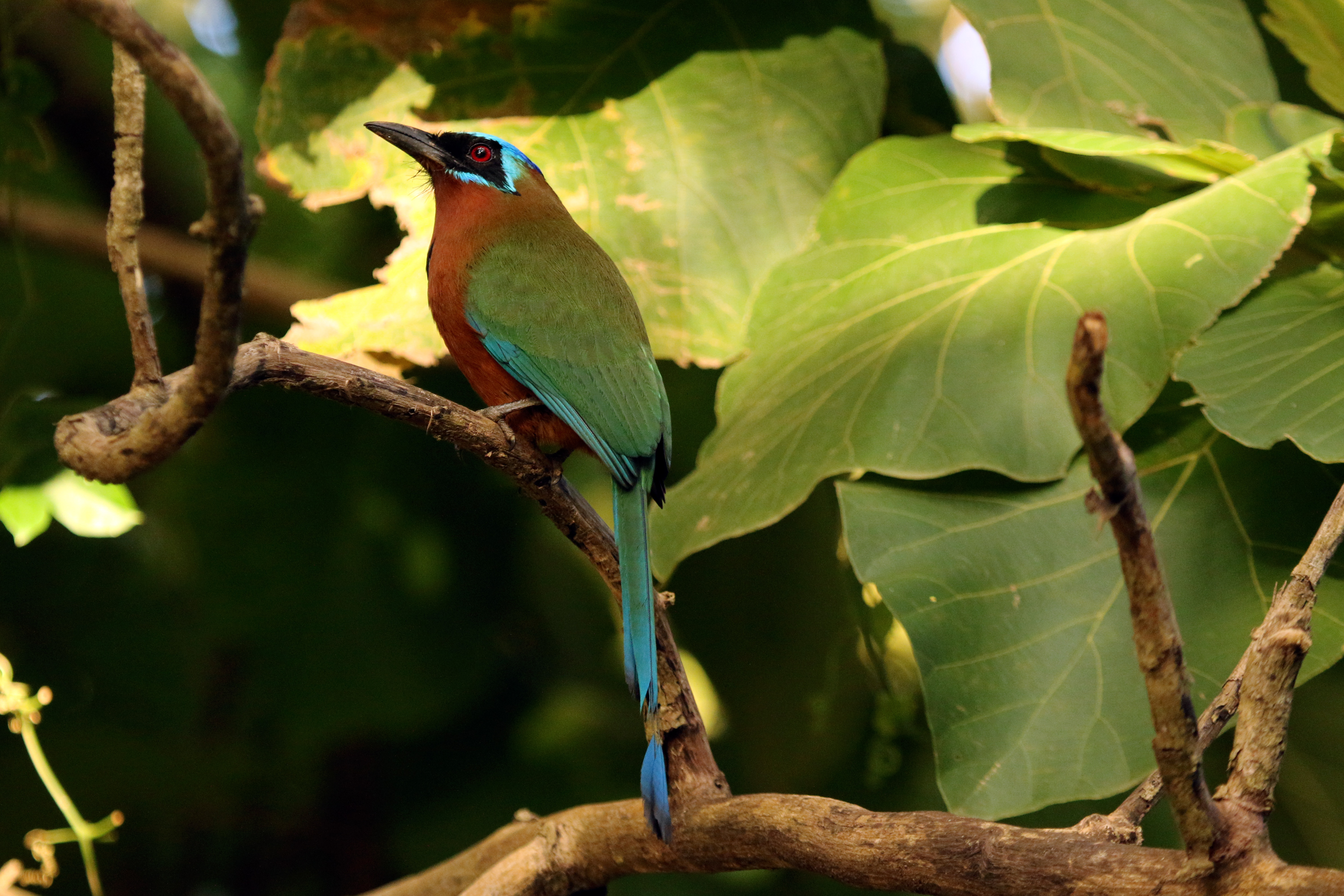 Trinidad motmot (Motmotus bahamensis), Tobago